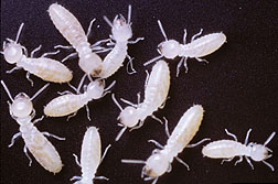 Agricultural Research Service scientists have developed a more affordable method to track the movement of termites using traceable proteins.